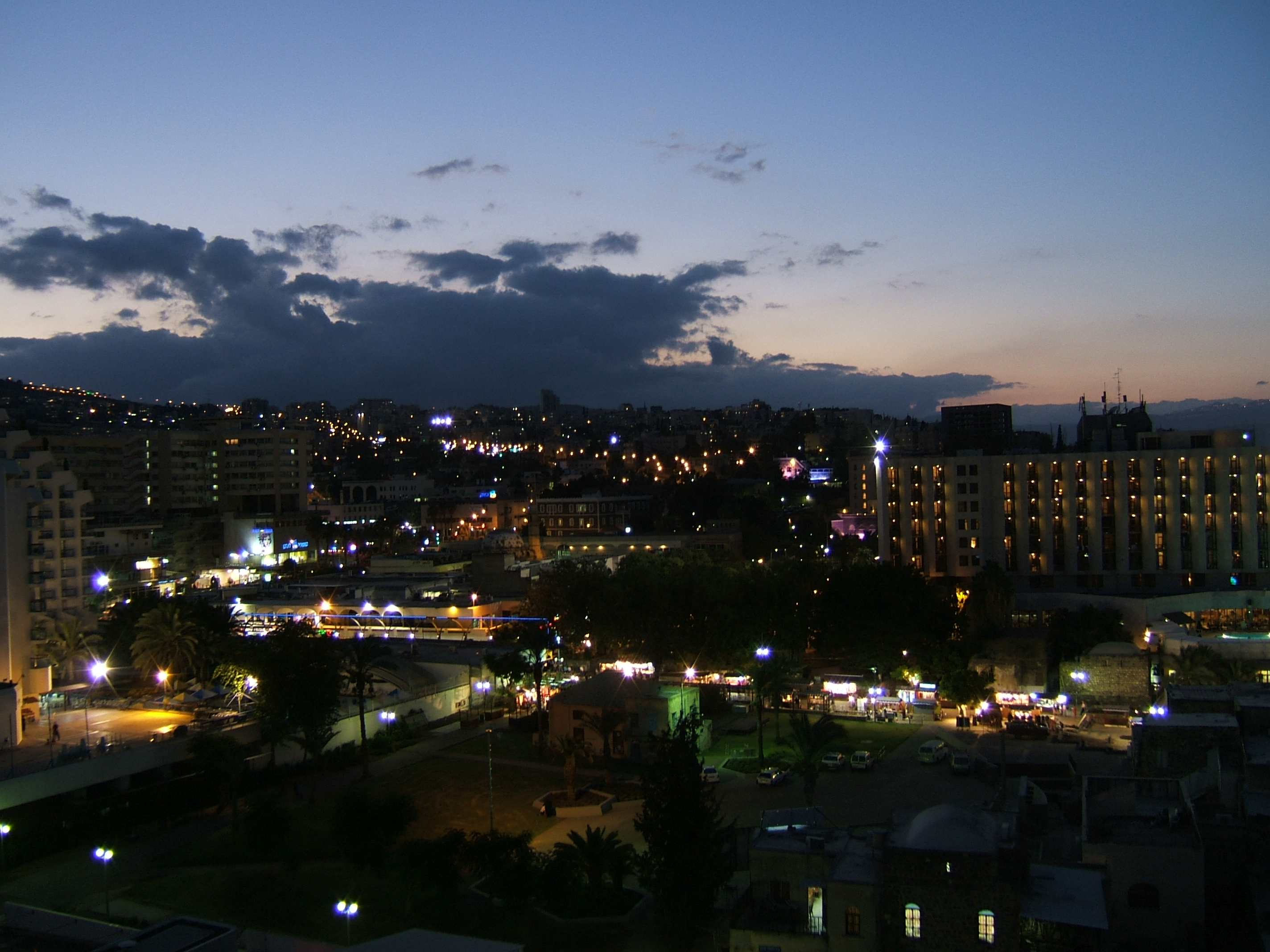 Tiberias, Israel at night.